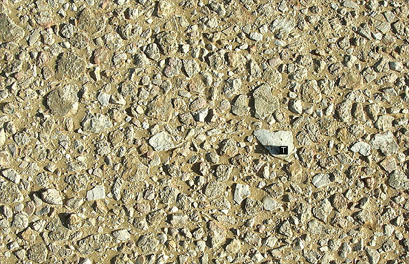 Desert pavement covering an aeolian deflation basin in the Rub' al-Khali desert. Scale cube is 1cm each side